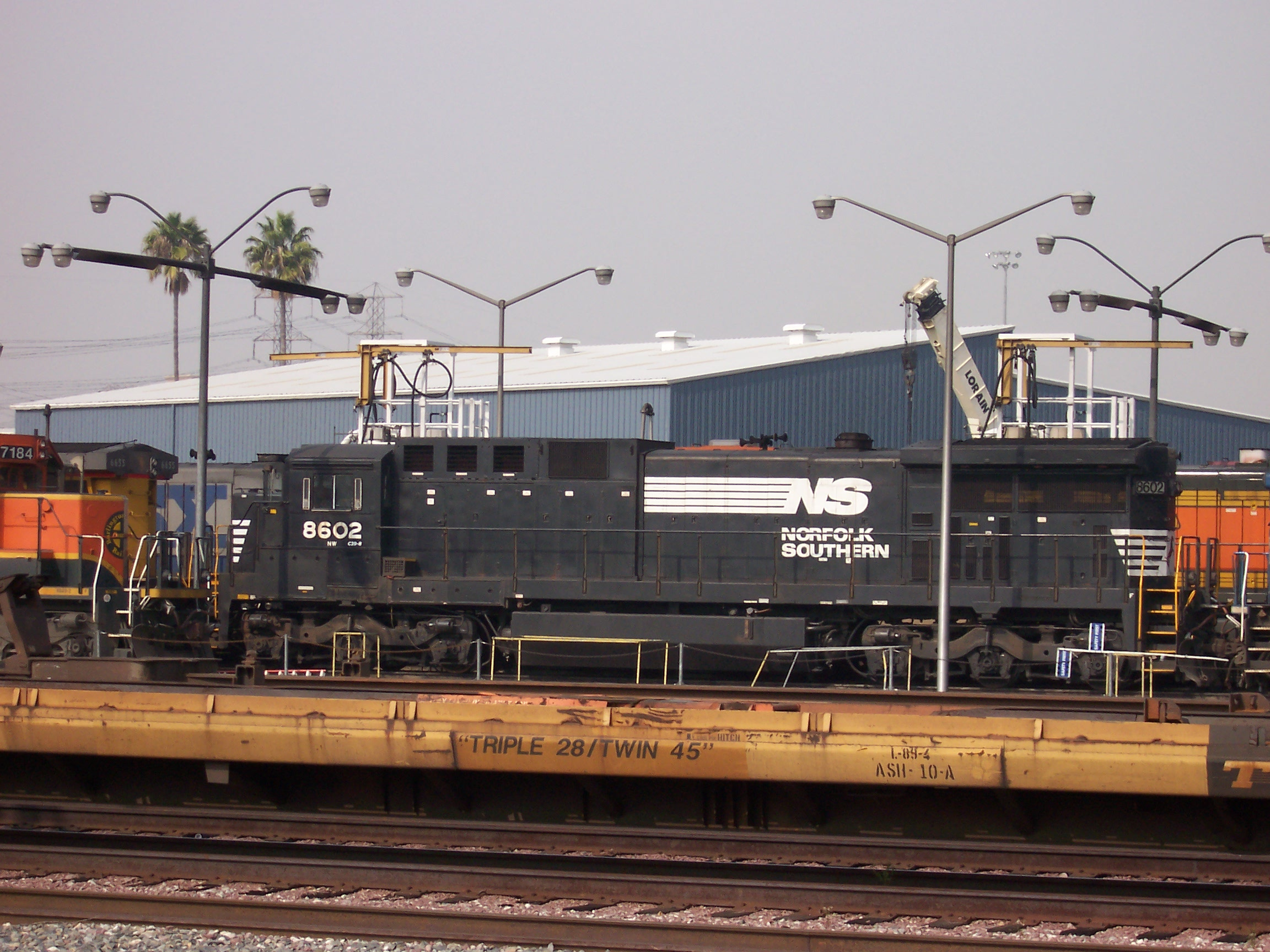 GE Dash 8-39C locomotive, NS 8602, Norfolk Southern